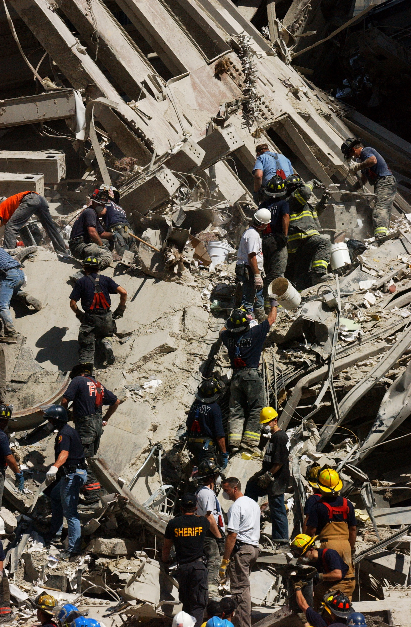 New York, N.Y. (Sept. 14, 2001) -- A "bucket brigade" works to clear rubble and debris, hoping to find survivors of the deadly terrorist attack on the World Trade Center (WTC). The WTC was destroyed during a Sep. 11, 2001, terrorist attack.